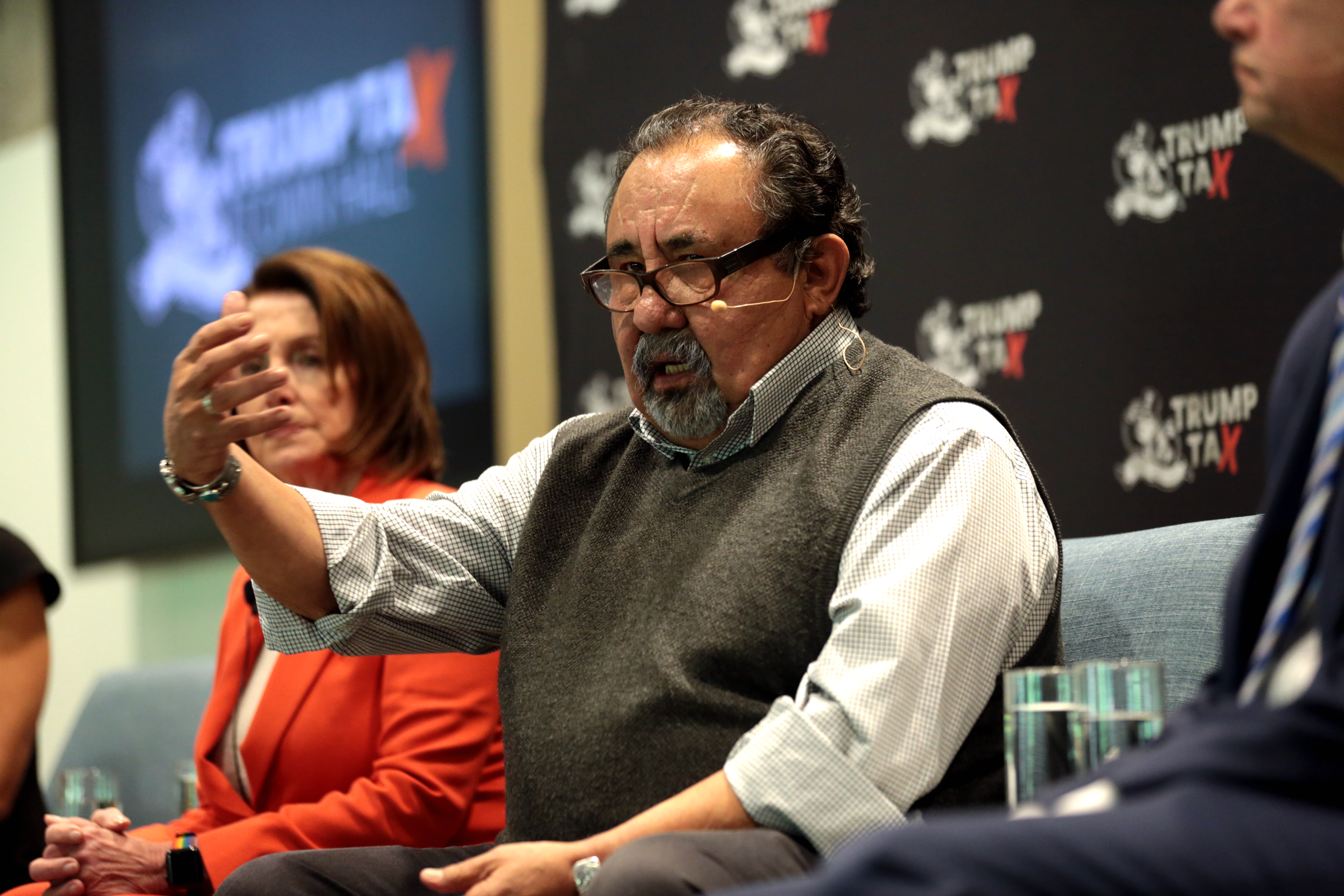 U.S. Congressman Raúl Grijalva speaking with attendees at a Trump Tax Town Hall hosted by Tax March at Events on Jackson in Phoenix, Arizona.